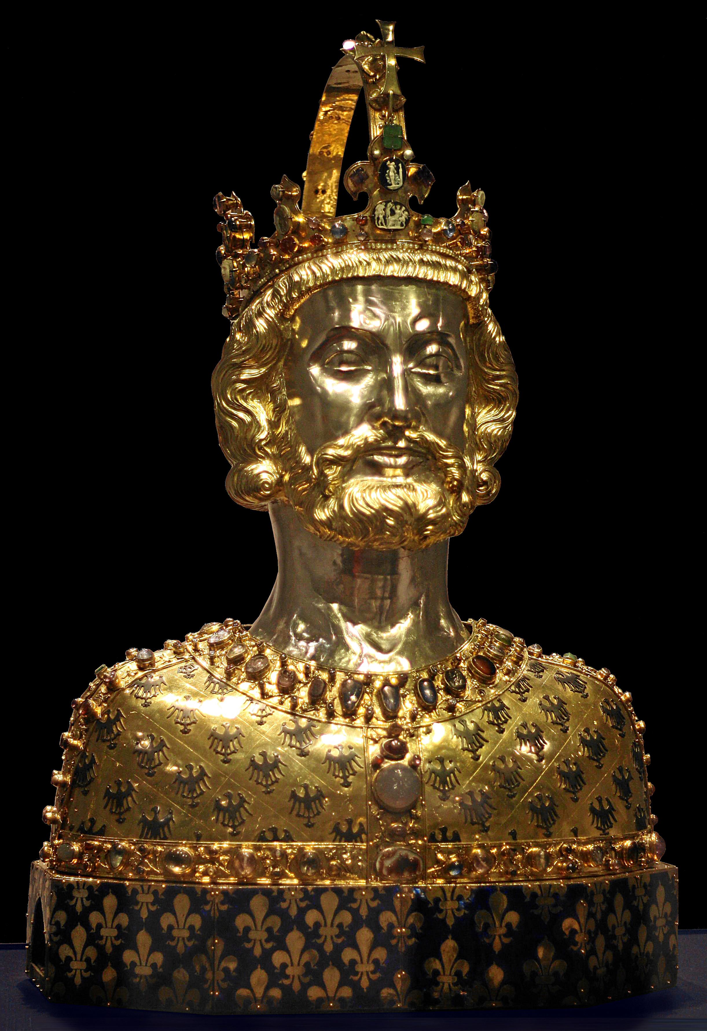 Aachen, Germany. Reliquiary of Charlemagne in Aachen cathedral treasure.